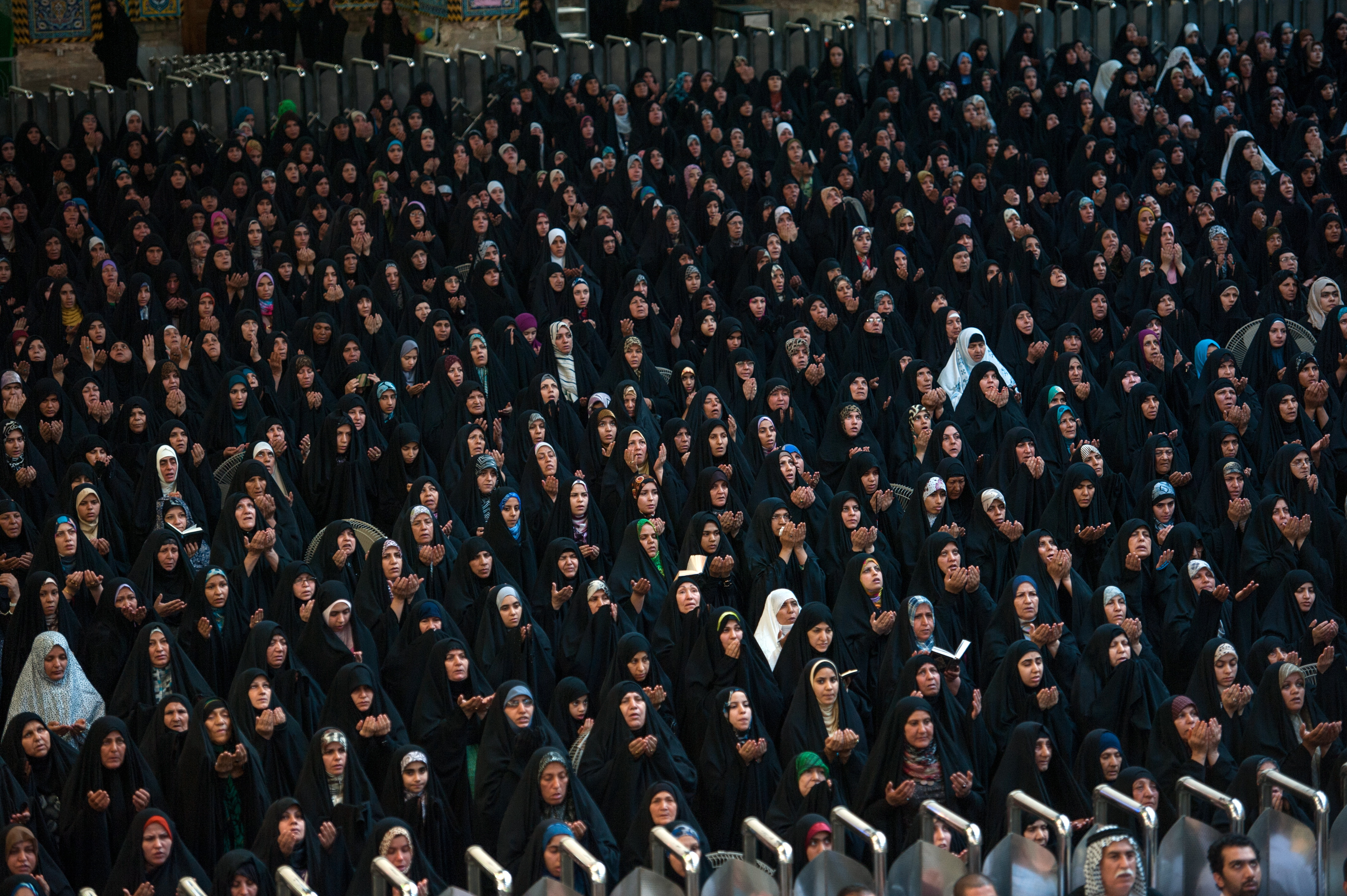 2014 Eid ul-Fitr Praying - Imam Ali Shrine - Najaf